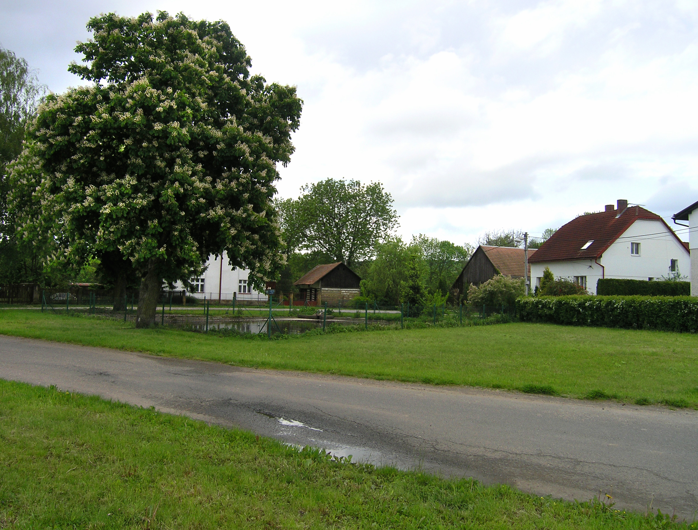 Common in Pševes, part of Kopidlno, Czech Republic